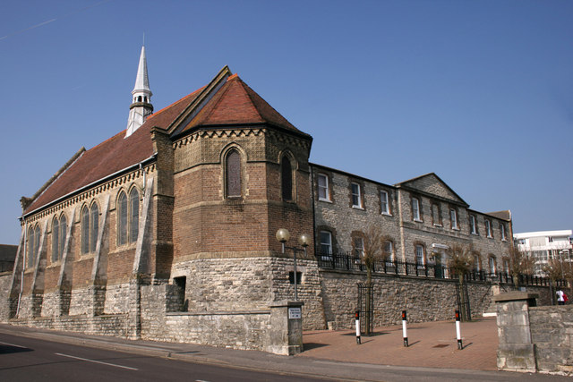 Children's Centre Children's Centre attached to the Dorset County Hospital.